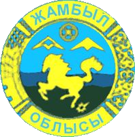 Coat of Arms, Zhambyl province Category:Coats of arms of Kazakhstan Category:Zhambyl Province